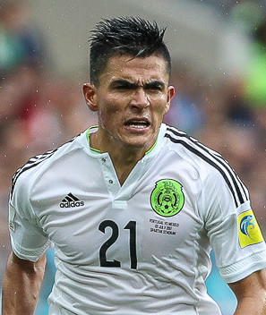 Portugal - Mexico, 2 Jul 2017